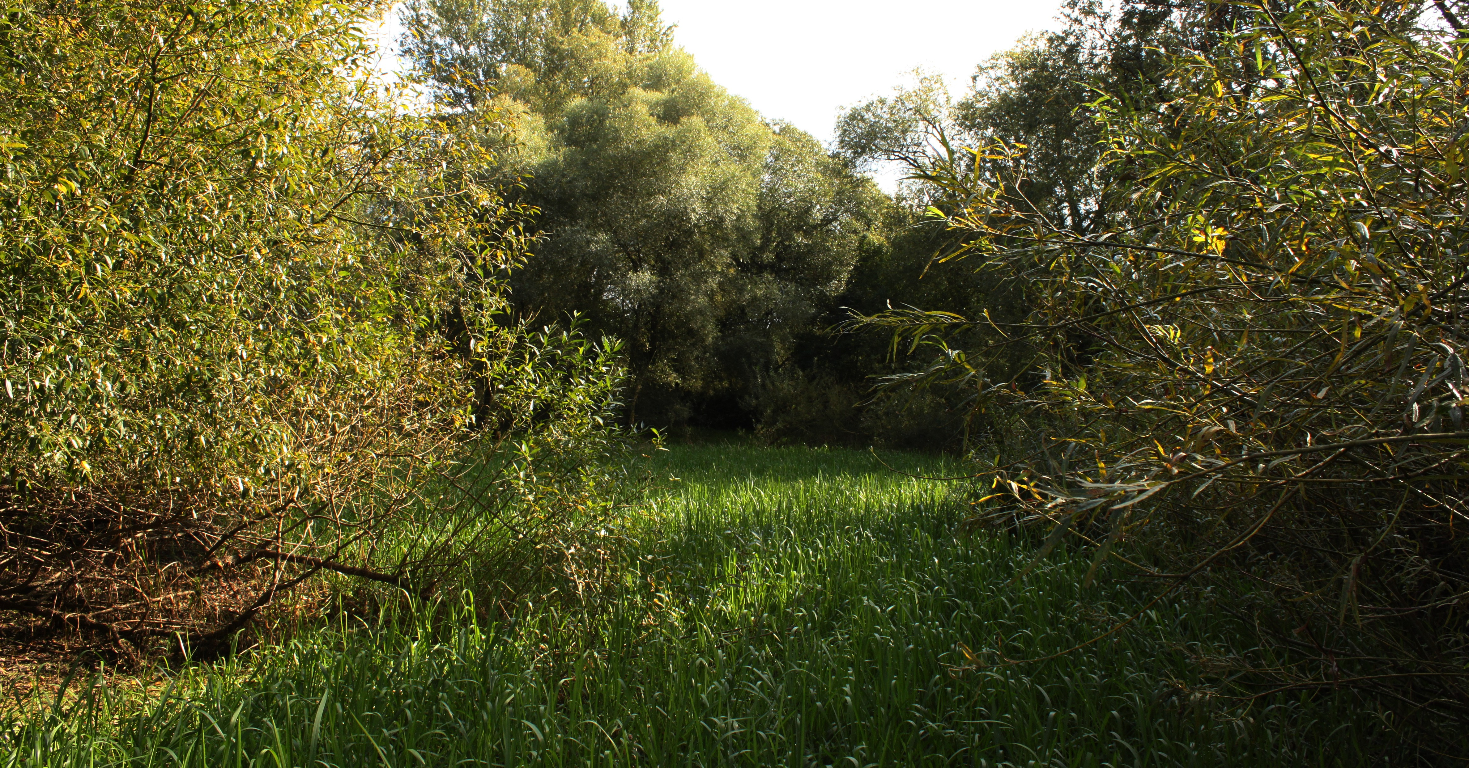 Former natural monument "Polabiny" in Pardubice District and Hradec Králové District, Czech Republic. Remnants of an old river arm with typical vegetation. Protection cancelled in 2001